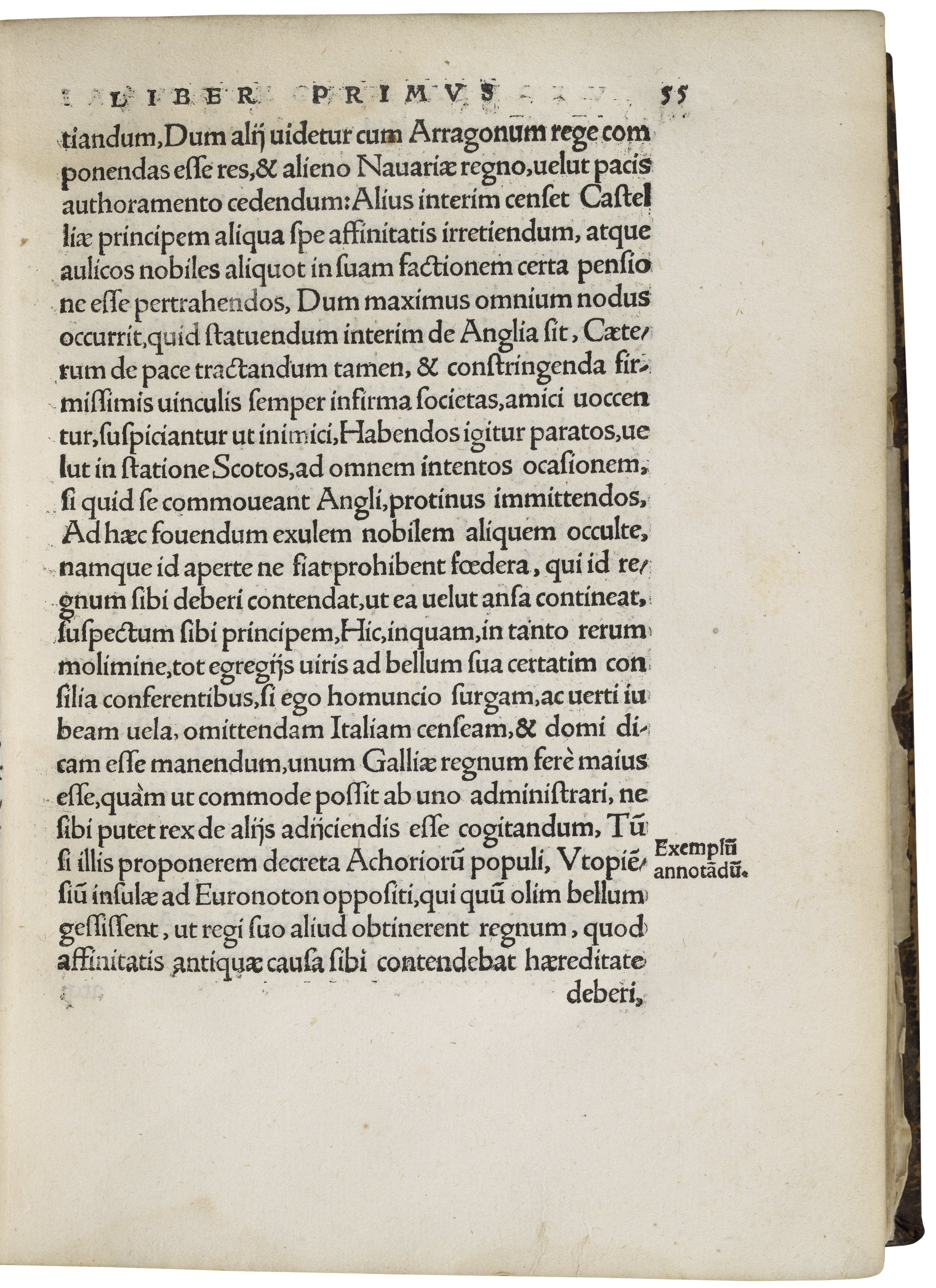 This is the page 55 of Thomas More's Utopie, printed in november 1518 by Johan Froben